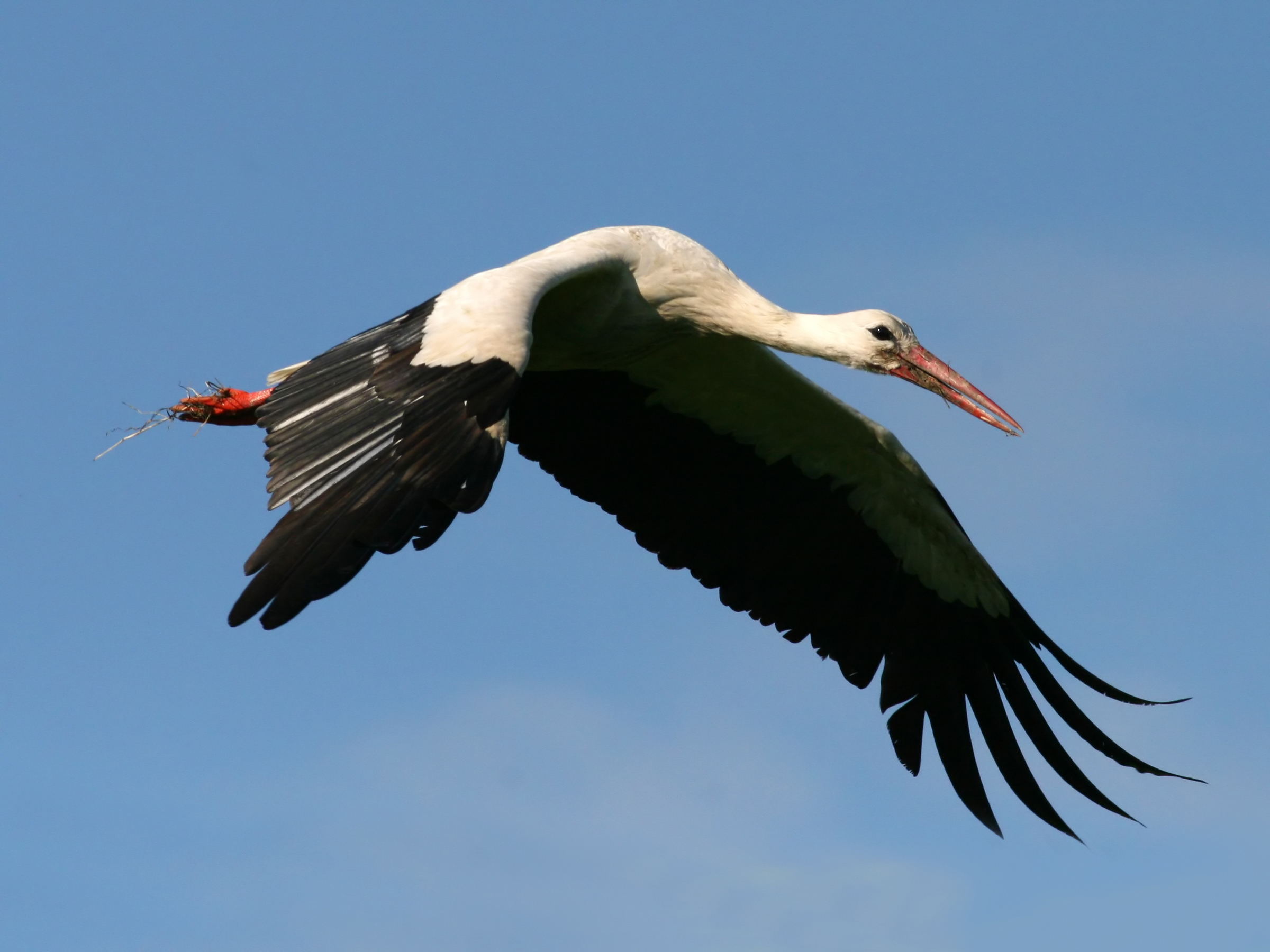 A White Stork (Ciconia ciconia) Photo taken on the Rheinspitz, Vorarlberg, Austria. See link for additional photos.